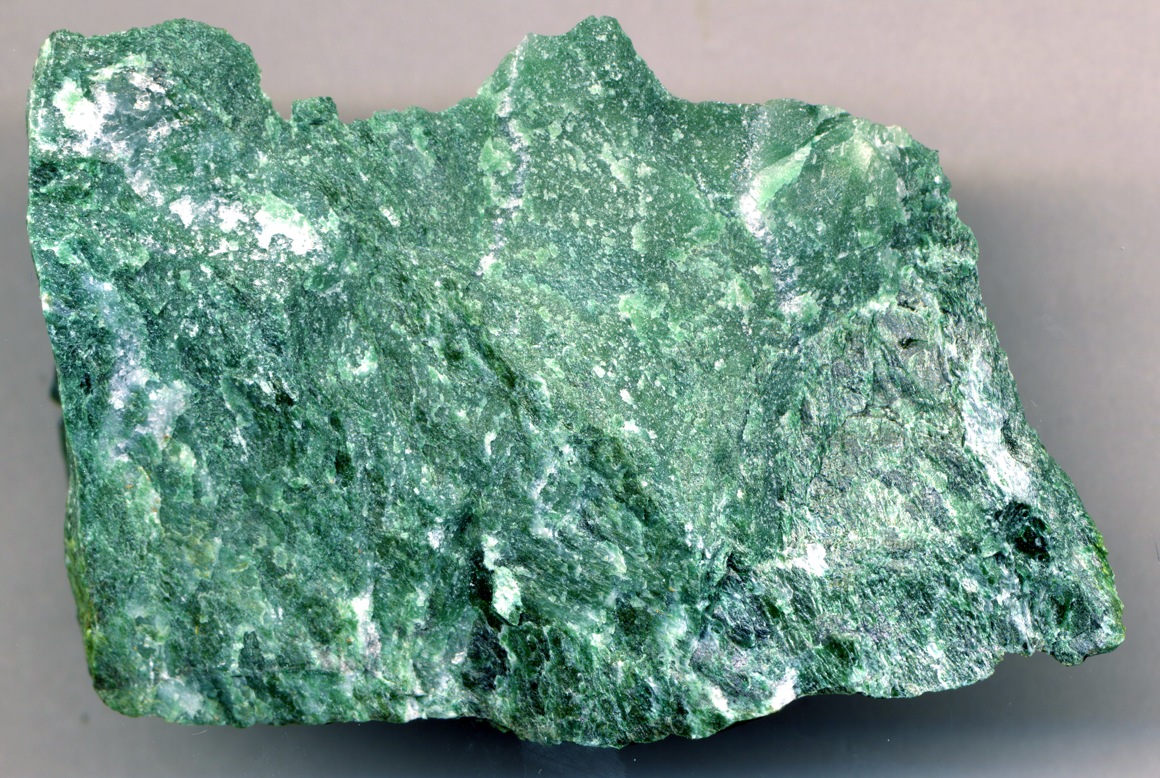 Verdite (fuchsite metamorphite) (6.5 cm across at its base) from the Precambrian of South Africa. Verdite is a ~monomineralic, microcrystalline fuchsite metamorphic rock to an impure, microcrystalline fuchsite metamorphic rock. The dominant mineral, fuchsite, is a greenish, chromium-rich muscovite mica. This rock was not accompanied by specific information, but it does come from the Archean of South Africa. It most likely comes from one of the two following South African verdite localities: 1) verdite lens in layered mafic-ultramafic dikes in shear zones in the Jamestown Schist Belt-Nelspruit Batholith transition area (the Nelspruit Batholith is Mesoarchean in age, 3.015 Ga); north or northwest of the town of Barberton, South Africa. 2) verdite lens or pod in ultramafic host rocks in the Onverwacht Group, Barberton Greenstone Belt, Paleoarchean, 3.30-3.55 Ga; southwest of the town of Barberton, South Africa.